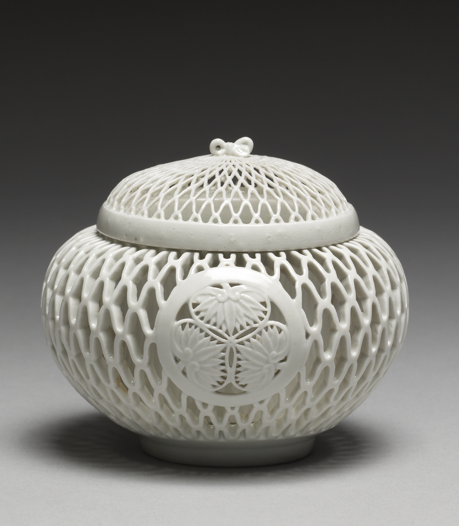 This is an example of Hirado ware.